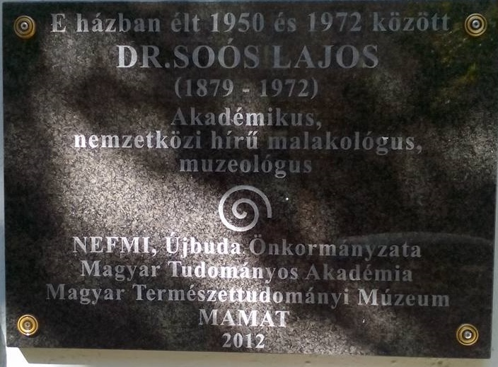 Lajos Soós zoologist commemorative plaque in Budapest District XI, Kanizsai Street No 13.